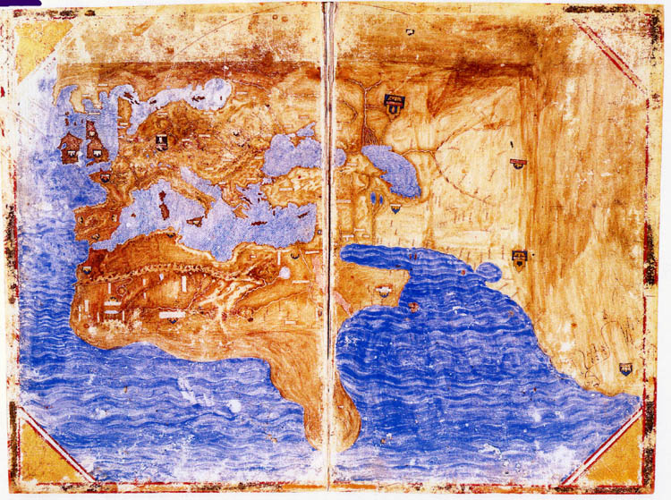 1351 map by anonymous Genoese author, the second of the eight plates known as the Medici Atlas (Atlante Mediceo) or the Laurentian-Gaddiano portolan (Portolono Laurenziano-Gaddiano). Original held at Biblioteca Mediceo-Laurenziana, Florence. Fascimile published 1881 as Portolano Laurenziano-Gaddiano di anonimo dell'anno 1351, illustrato T. Fischer, Venice: F. Ongania.